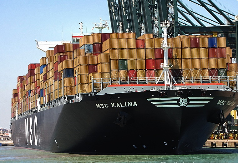 MSC Kalina at Jebel Ali, UAE/Terminal 2